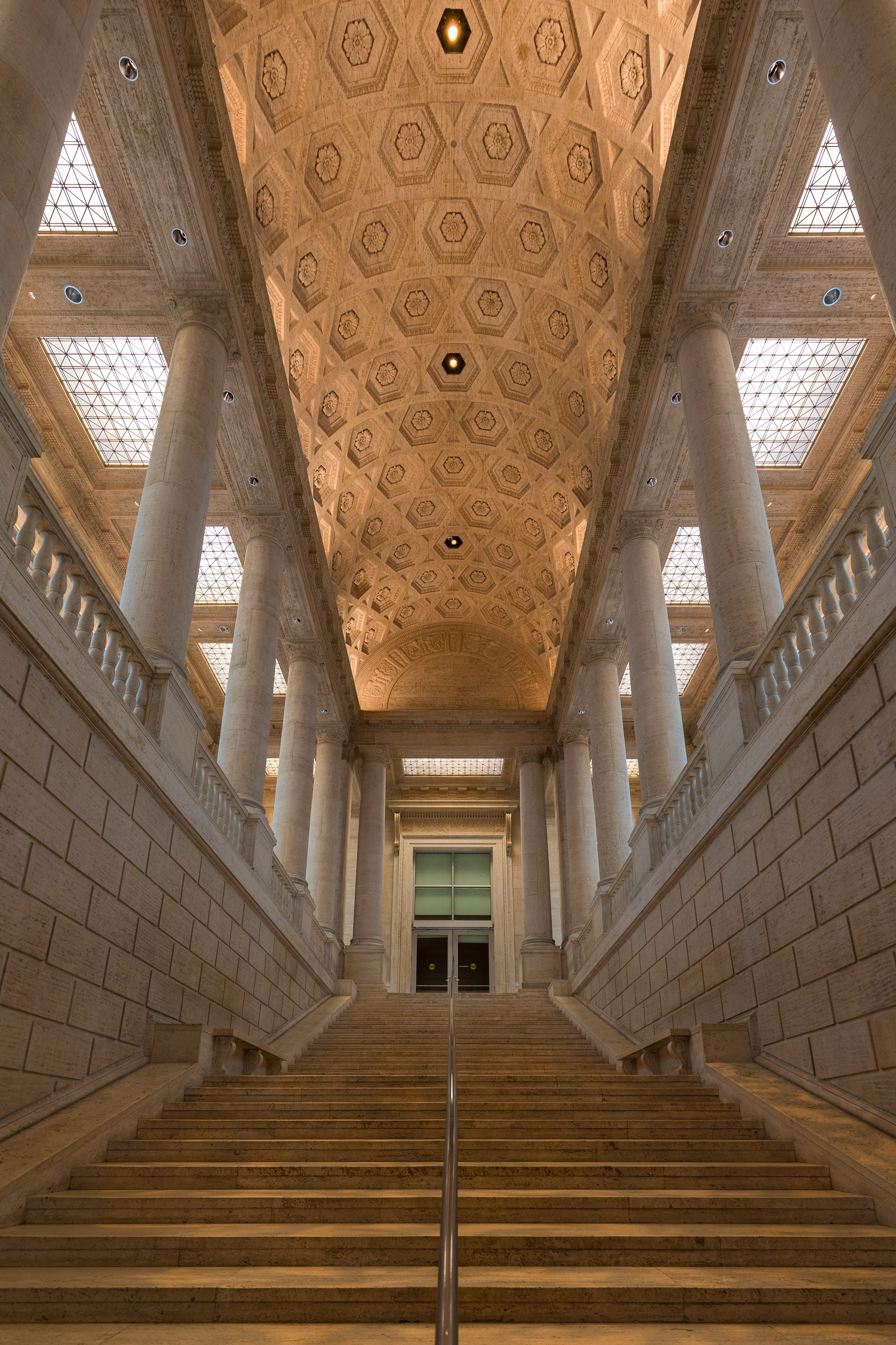 Wilbur Grand Staircase, Asian Art Museum of San Francisco